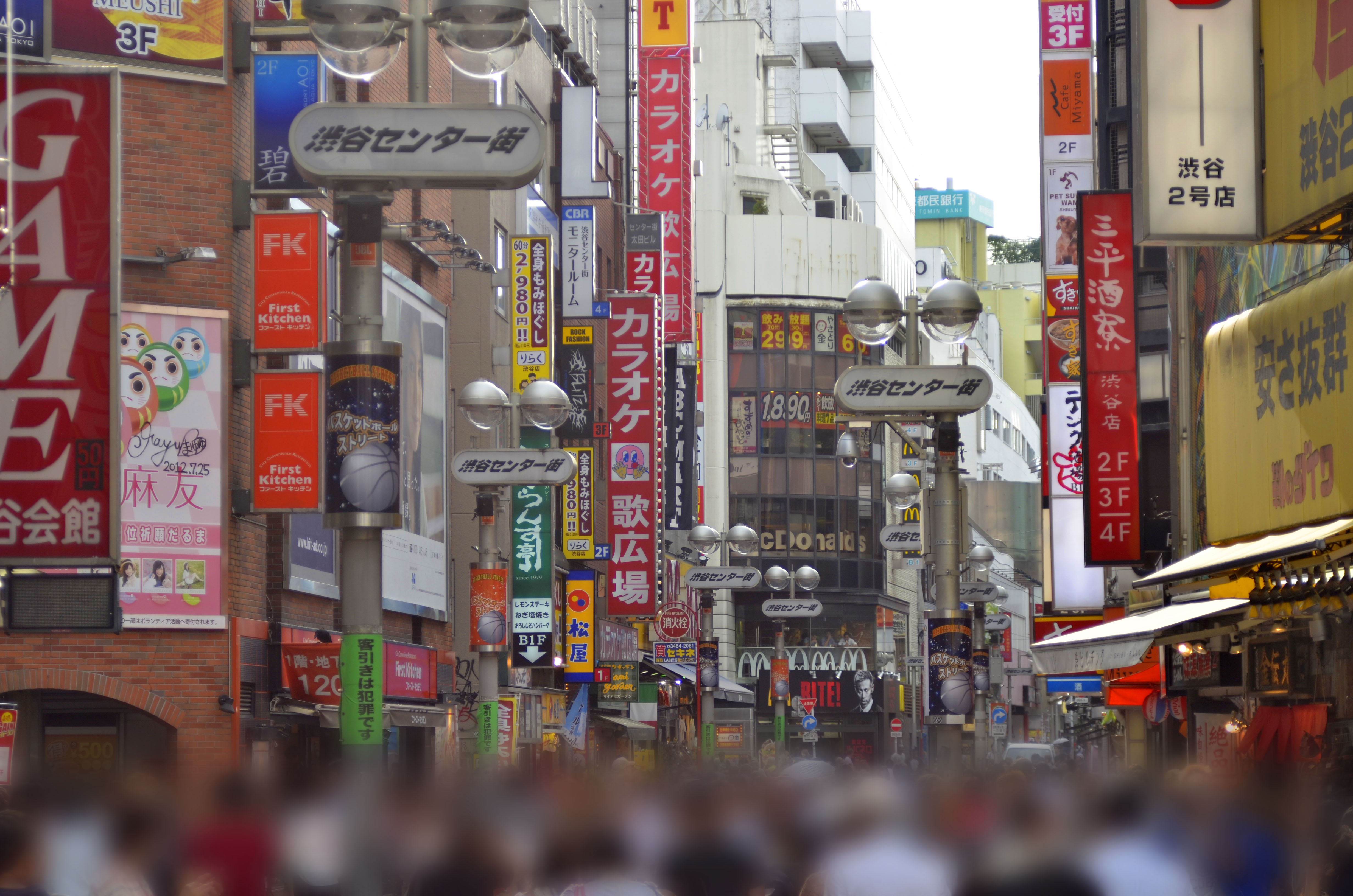 Shopping Street in Shibuya, Tokyo